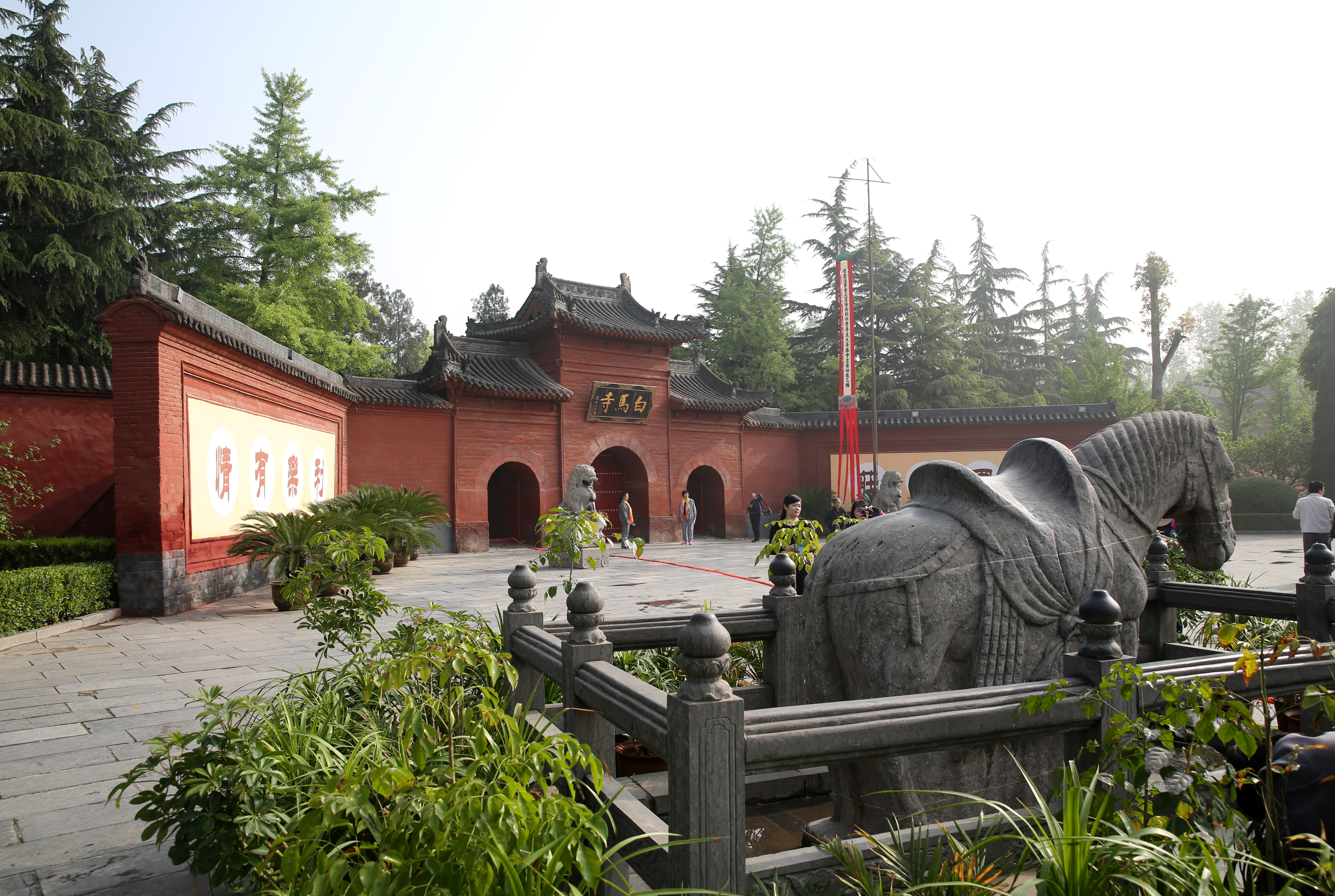 The shanmen at White Horse Temple, in Luoyang, Henan, China.